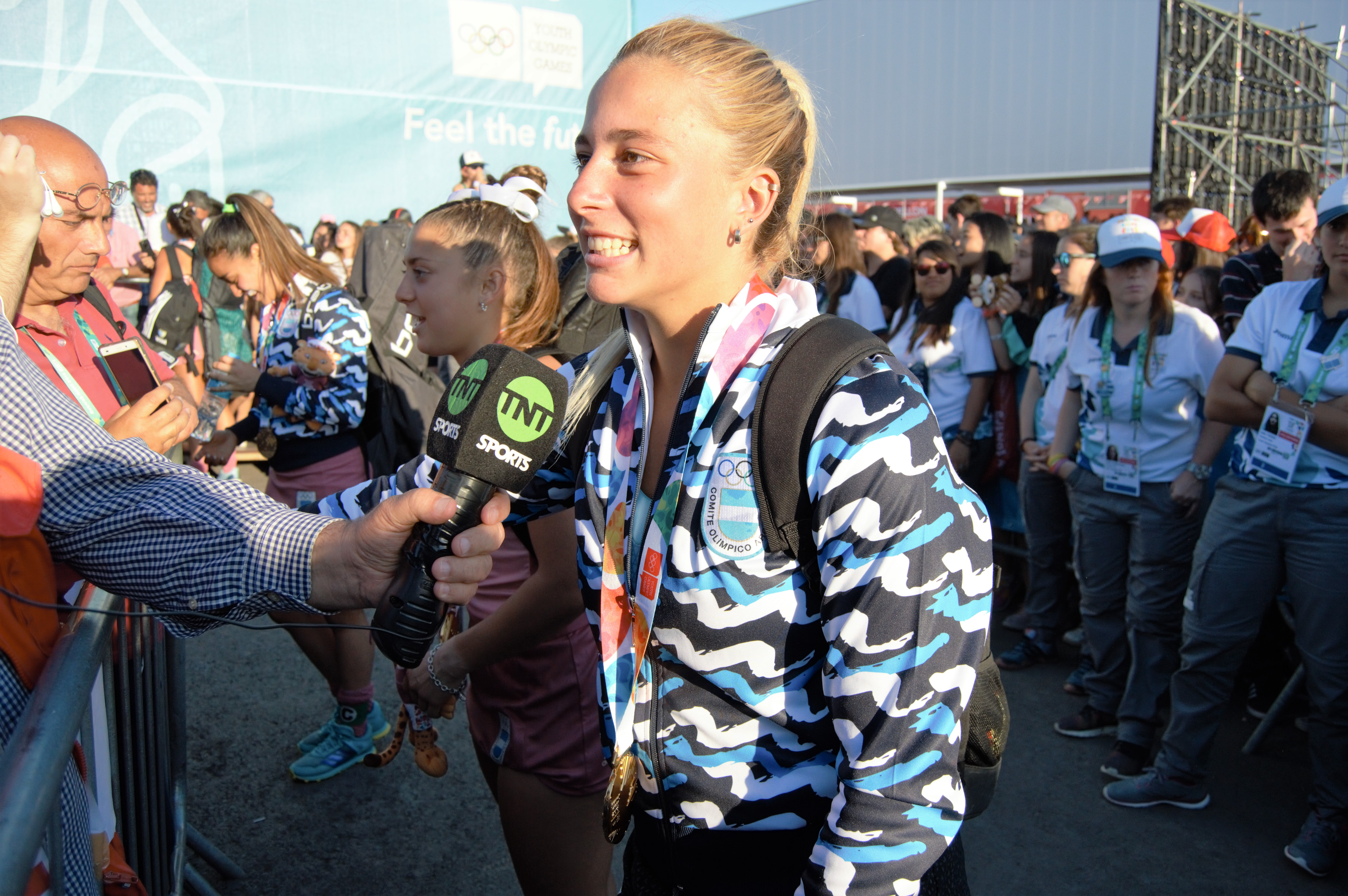 Lourdes Perez being interviewed after the victory ceremony of women's hockey at the 2018 Summer Youth Olympics.